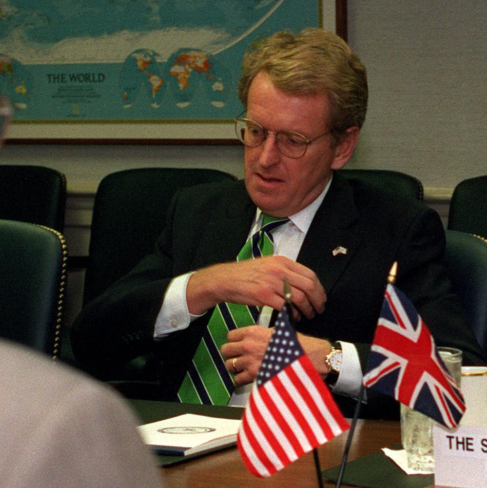 Ambassador Christopher Meyer , the UK's ambassador to the U.S., meets with Secretary of Defence Donald H. Rumsfeld (left), of the United States of America, in the Pentagon on 30th of October 2001.